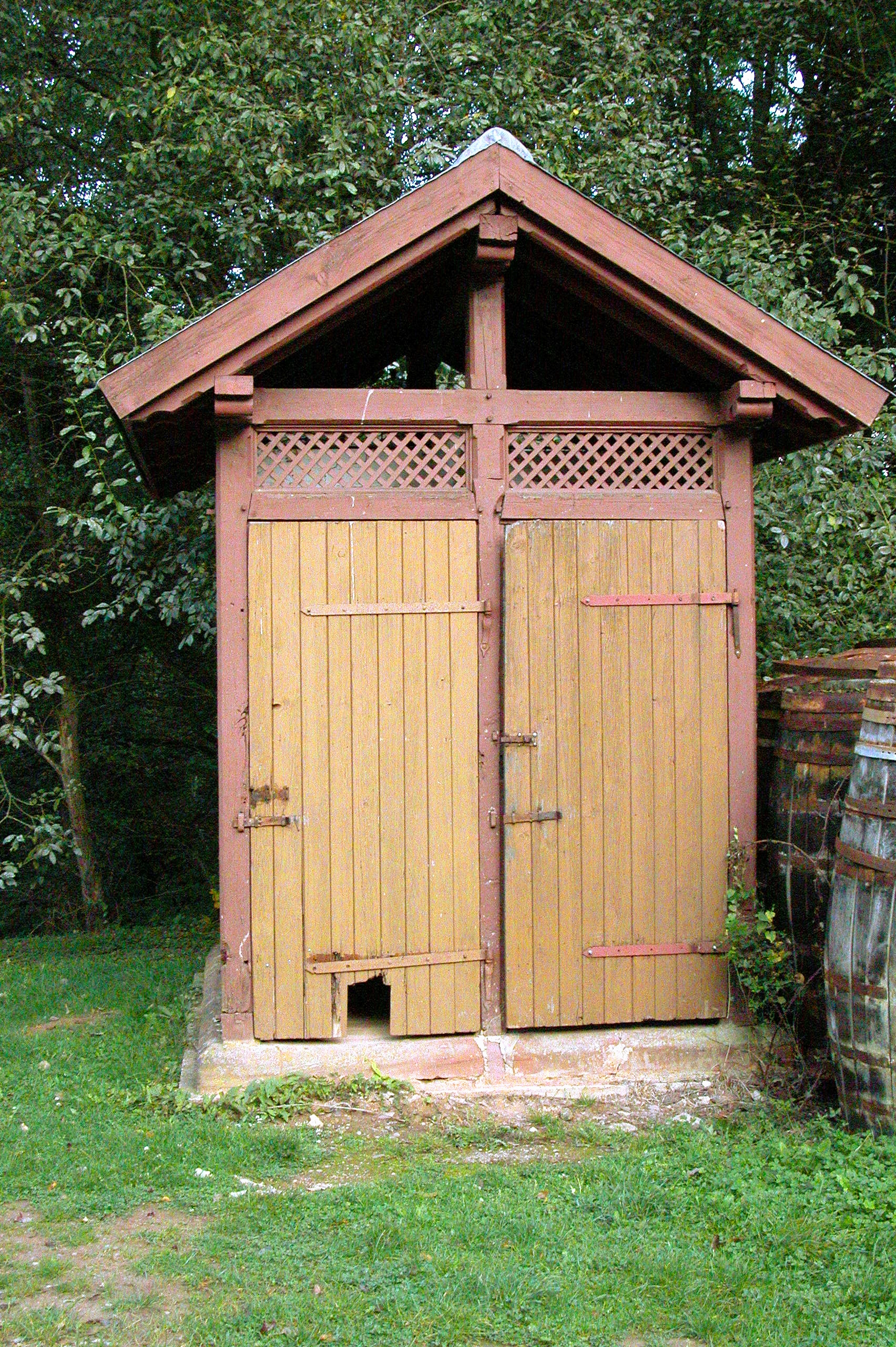 Open air museum Roscheider Hof, Konz, Germany, School toilet from Polch (Saargau)